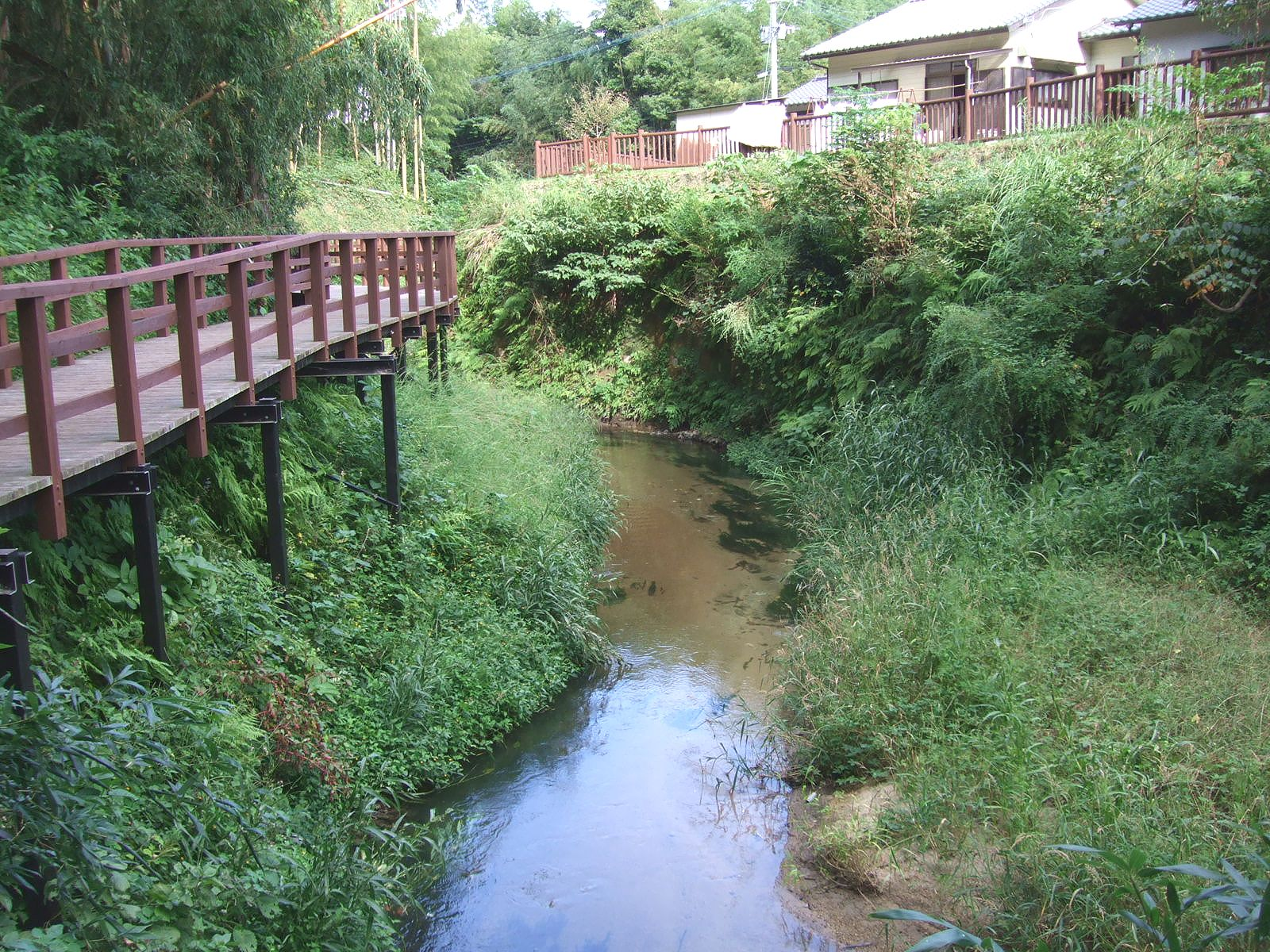 The aqueduct “Sakutano Unade”, Nakagawa Town, Fukuoka, Japan.